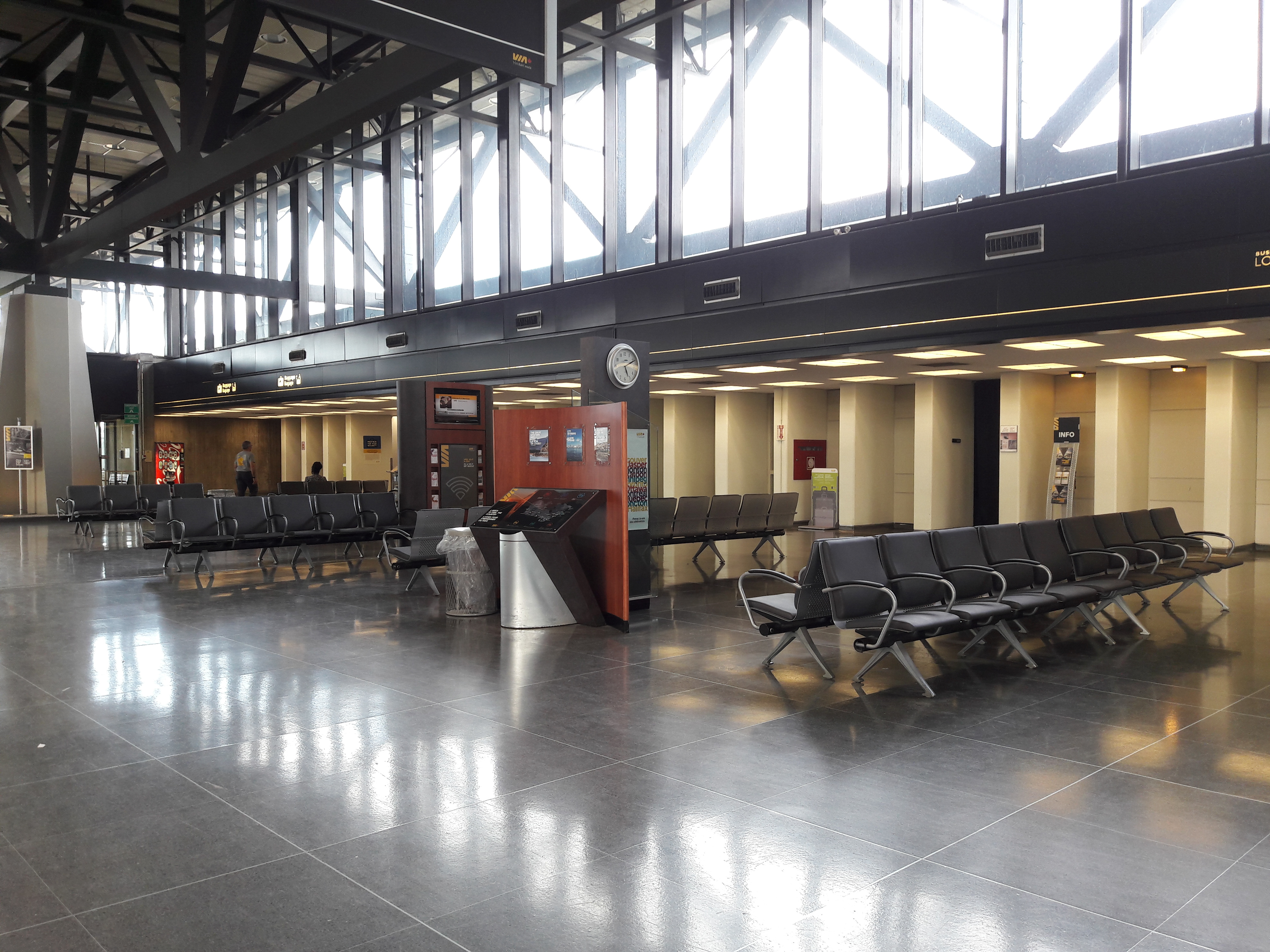 Inside Ottawa Train Station